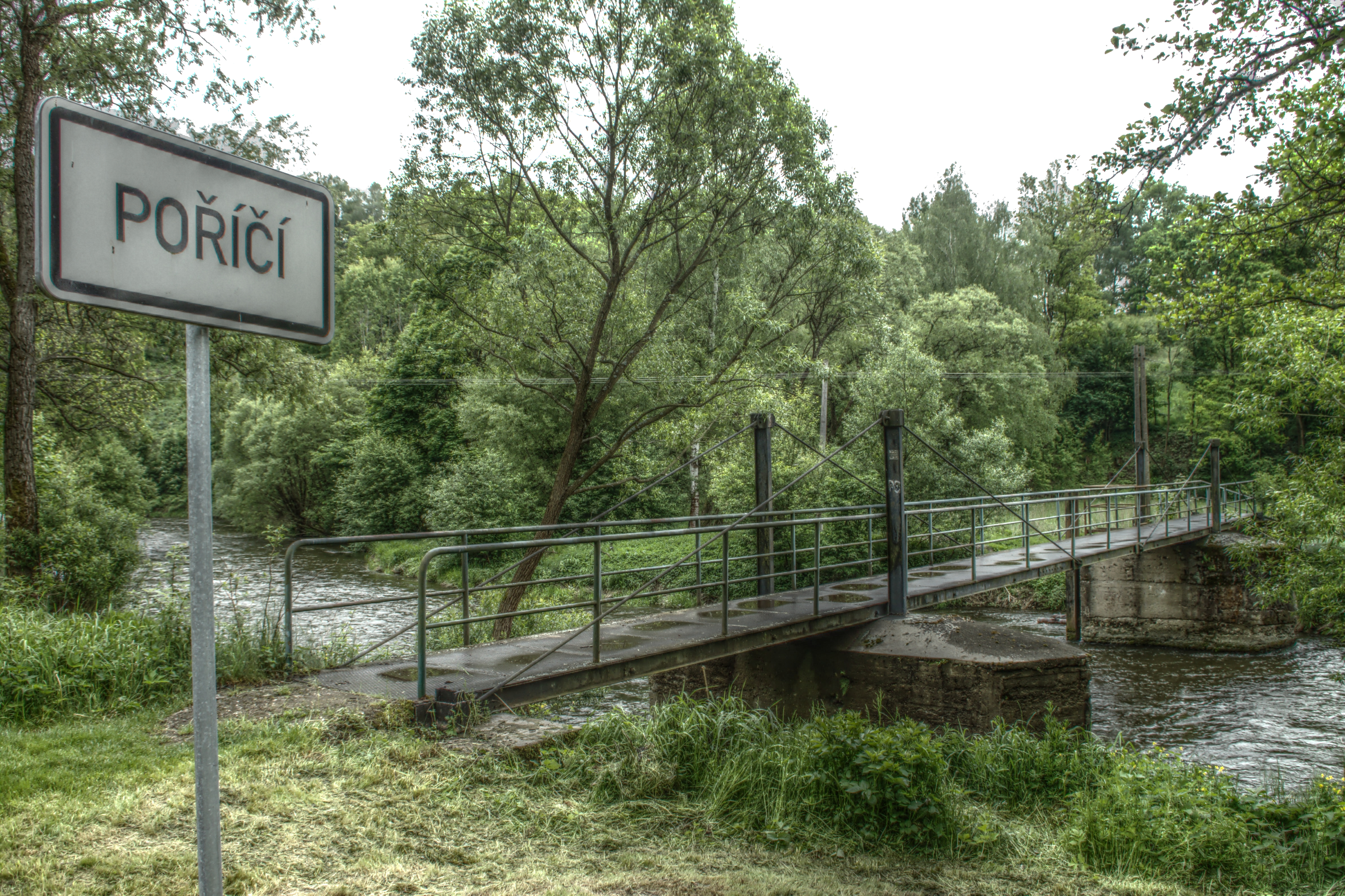 Poříčí village in Pelhřimov District, Vysočina Region, CZ Qtpfsgui 1.9.3 tonemapping parameters: Operator: Mantiuk Parameters: Contrast Equalization factor: 0.5 Saturation Factor: 1.5 Detail Factor: 1 PreGamma: 1